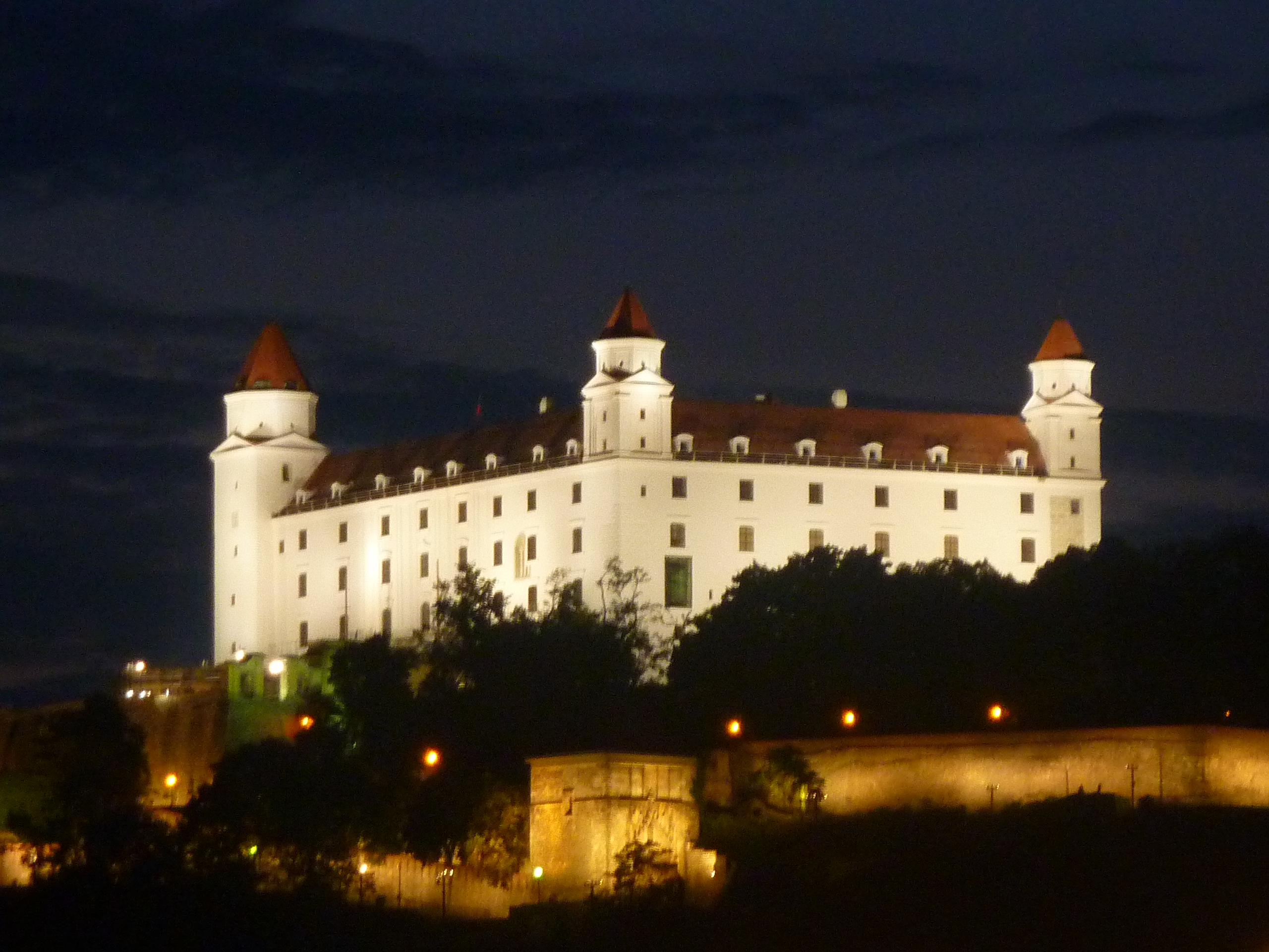 Bratislava Castle at night